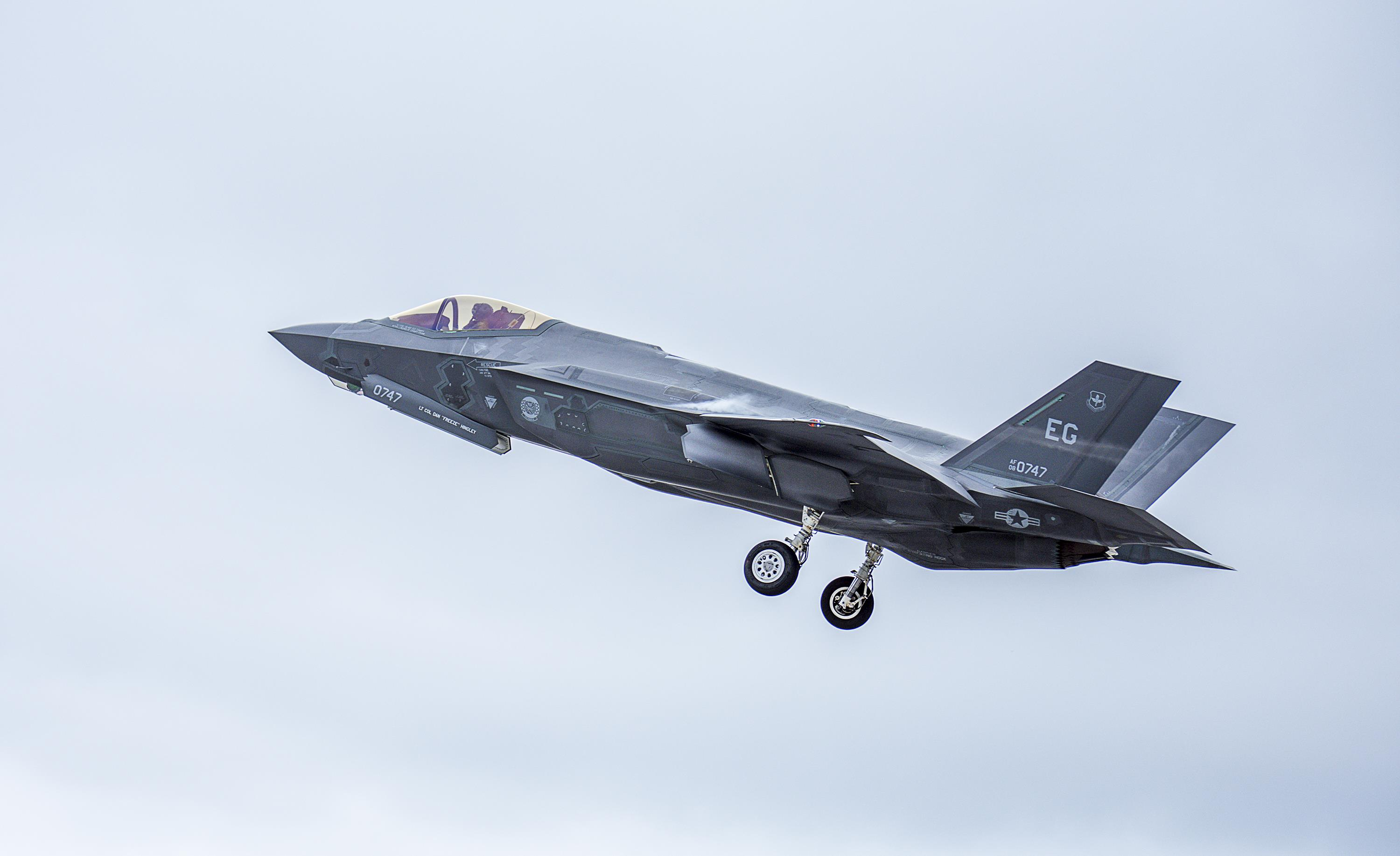 A 33rd Fighter Wing F-35A takes off Feb. 27 to conduct sorties at Eglin Air Force Base, Fla. The F-35’s helmet mounted display system is the most advanced system of its kind. All the intelligence and targeting information an F-35 pilot needs to complete the mission is displayed on the helmet’s visor. This provides the pilot with unsurpassed situational awareness, positive target identification and precision strike in all weather conditions. (U.S. Air Force photo/Kristin Stewart)